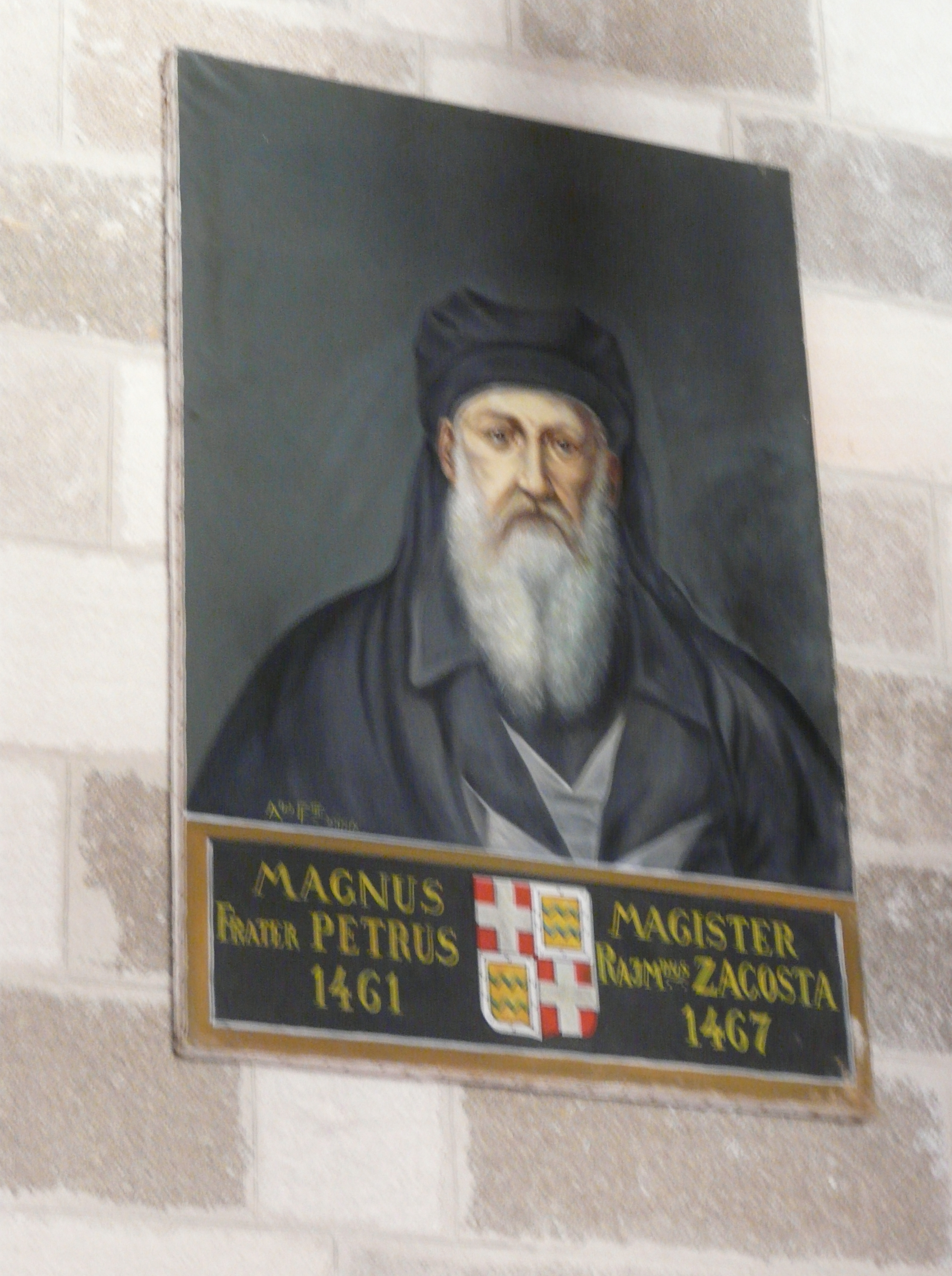 Palace of the Grand Master of the Knights of Rhodes